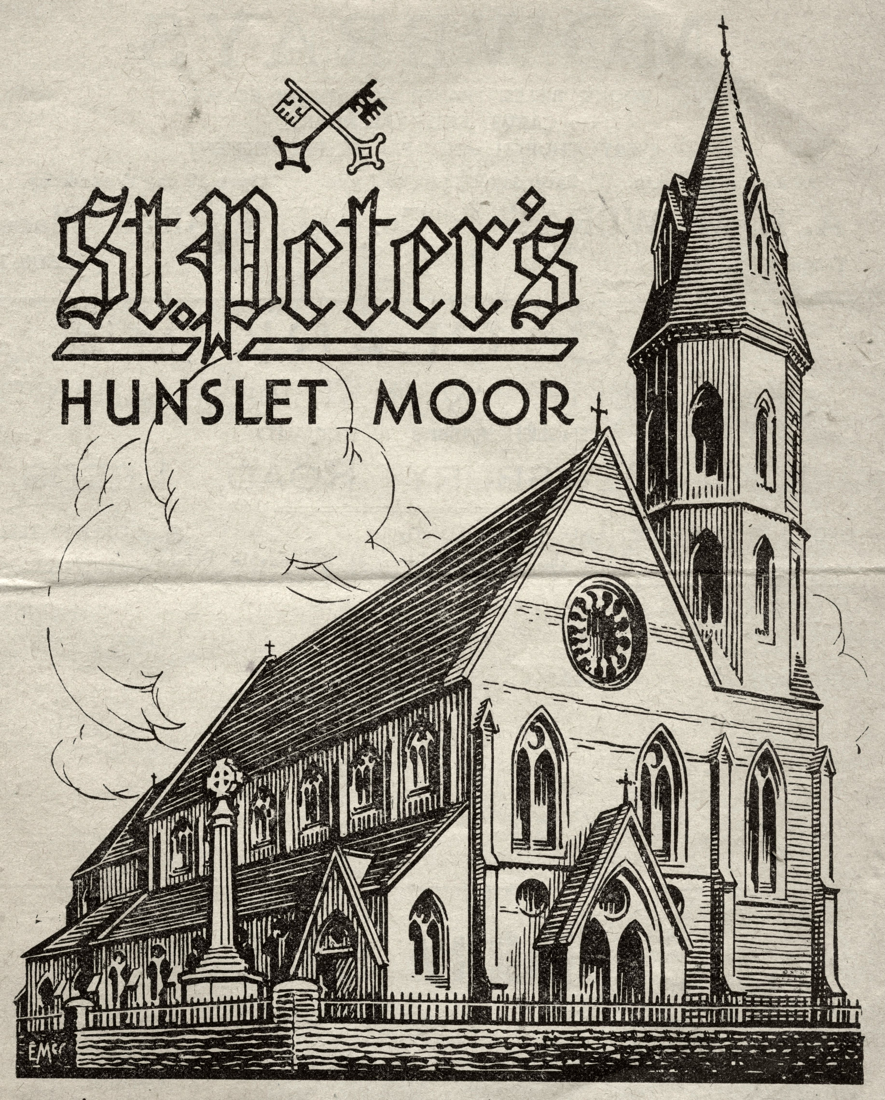 Part of front cover of December 1946 edition of parish magazine, of St Peter's church on Dewsbury Road at the junction with Moor Road, Hunslet Moor, West Yorkshire, England. Designed by Perkin & Son, and consecrated in 1868. It was demolished some time after 1975, and the site is now occupied by St Peter's Court flats. The name of the illustrator of this front cover is unknown. The church is gone, and its archives are incomplete.